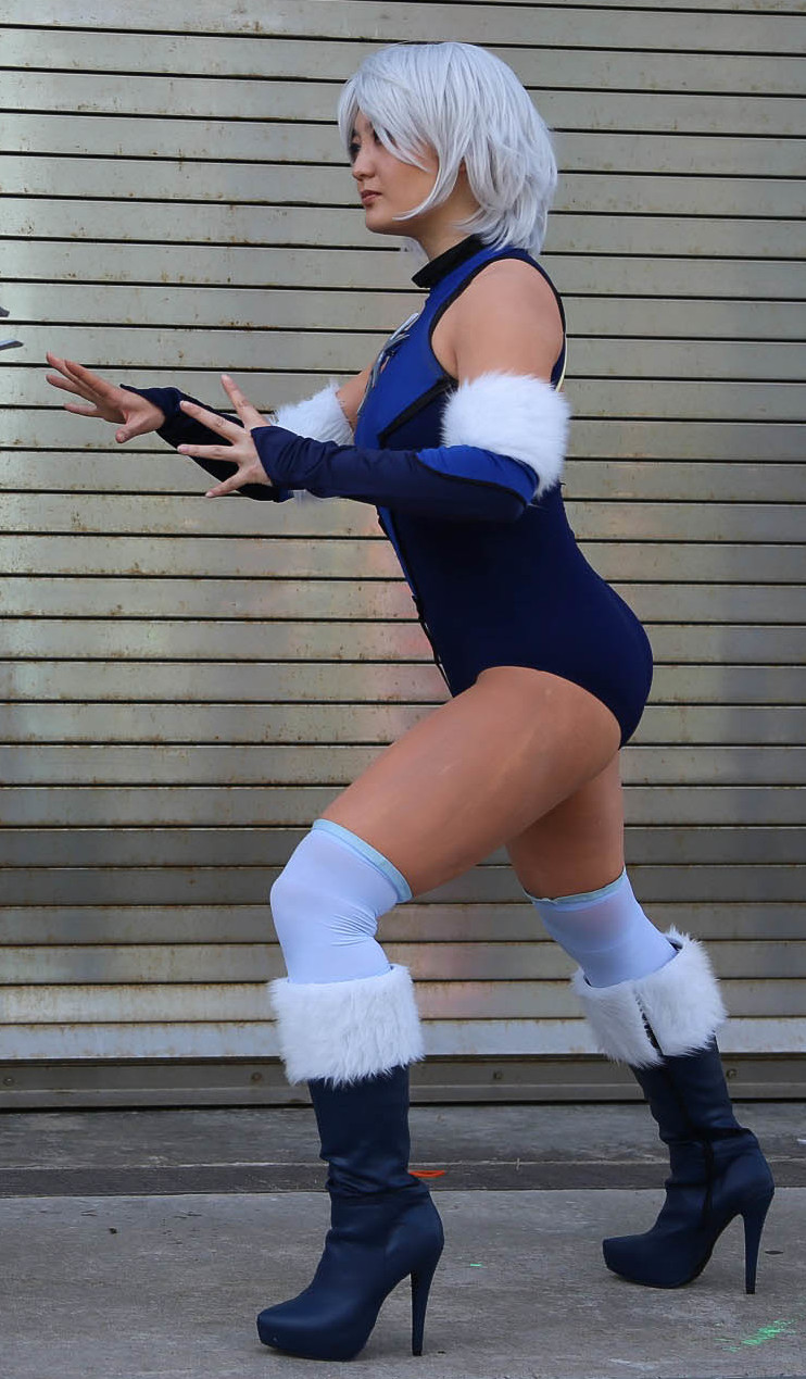 Cosplay of Vega (from Street Fighter) vs Killer Frost (from DC Comics) at Special Edition: NYC in 2015.